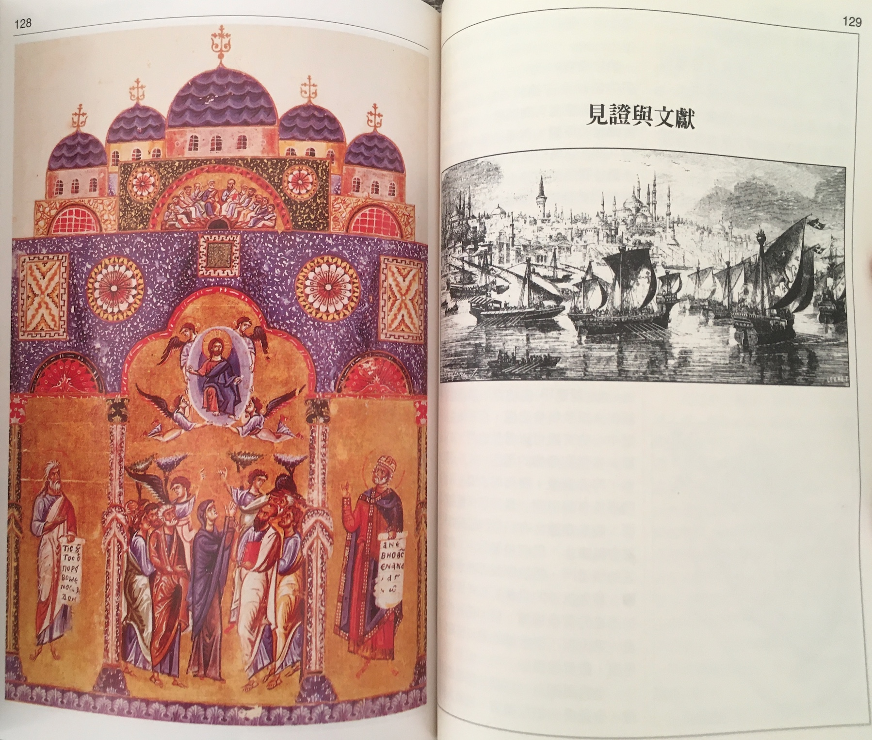 Left: Miniature of Church of the Holy Apostles in Constantinople, 12th century. Vatican Library. Right: Engraving of The Arrival of the Crusaders at Constantinople in 1204, 19th century. — End of the “corpus” and beginning of the “Documents” section in the book “拜占庭：燦爛的黃金時代” (lit. ‘Byzantium: Splendid Golden Age’, pp. 128–129), “Voyage d’exploration” series (vol. 72). Taiwan (traditional Chinese) edition translated from the French Tout l’or de Byzance by Michel Kaplan, collection « Découvertes Gallimard / Histoire » (nº 104). 中文（台灣）: 左：聖徒教堂，12世紀纖細畫，梵蒂岡圖書館，羅馬。右：1204年，十字軍船隊抵達君士坦丁堡，19世紀版畫。——「發現之旅」叢書第72冊《拜占庭：燦爛的黃金時代》第128和129頁，彩圖印刷的正文部份結束，進入黑白印刷的「見證與文獻」部份。Michel Kaplan/著，呂淑蓉/譯。臺北：時報文化，2003年8月20日出版。插圖簡短說明位於此書第175頁。